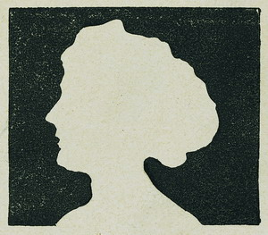 Old Dr. Oetker logo